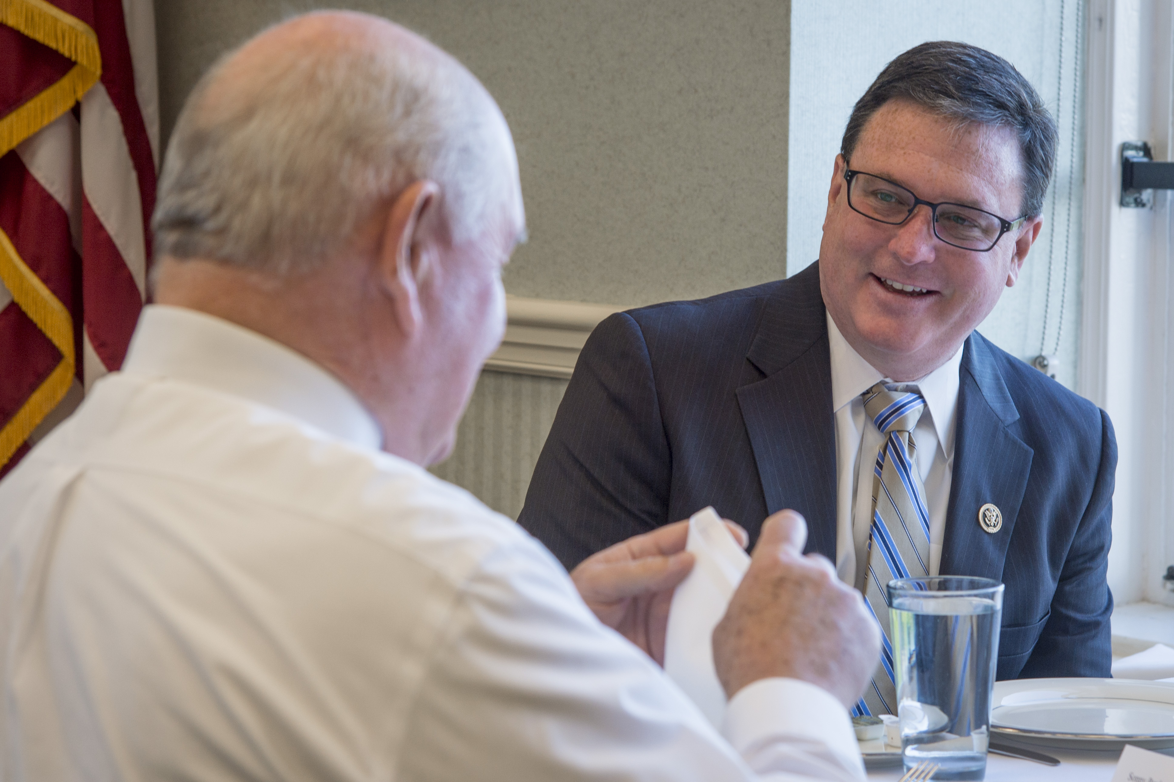 The U.S. Department of Agriculture (USDA) Secretary Sonny Perdue meets with Rep. Todd Rokita (R-Ind.) and Rep. Virginia Foxx (R-N.C.) (not pictured) for a House Education & Workforce Breakfast in the USDA Lincoln Dining room, Washington, D.C., to discuss child nutrition and school lunches June 8, 2017. USDA photo by Preston Keres